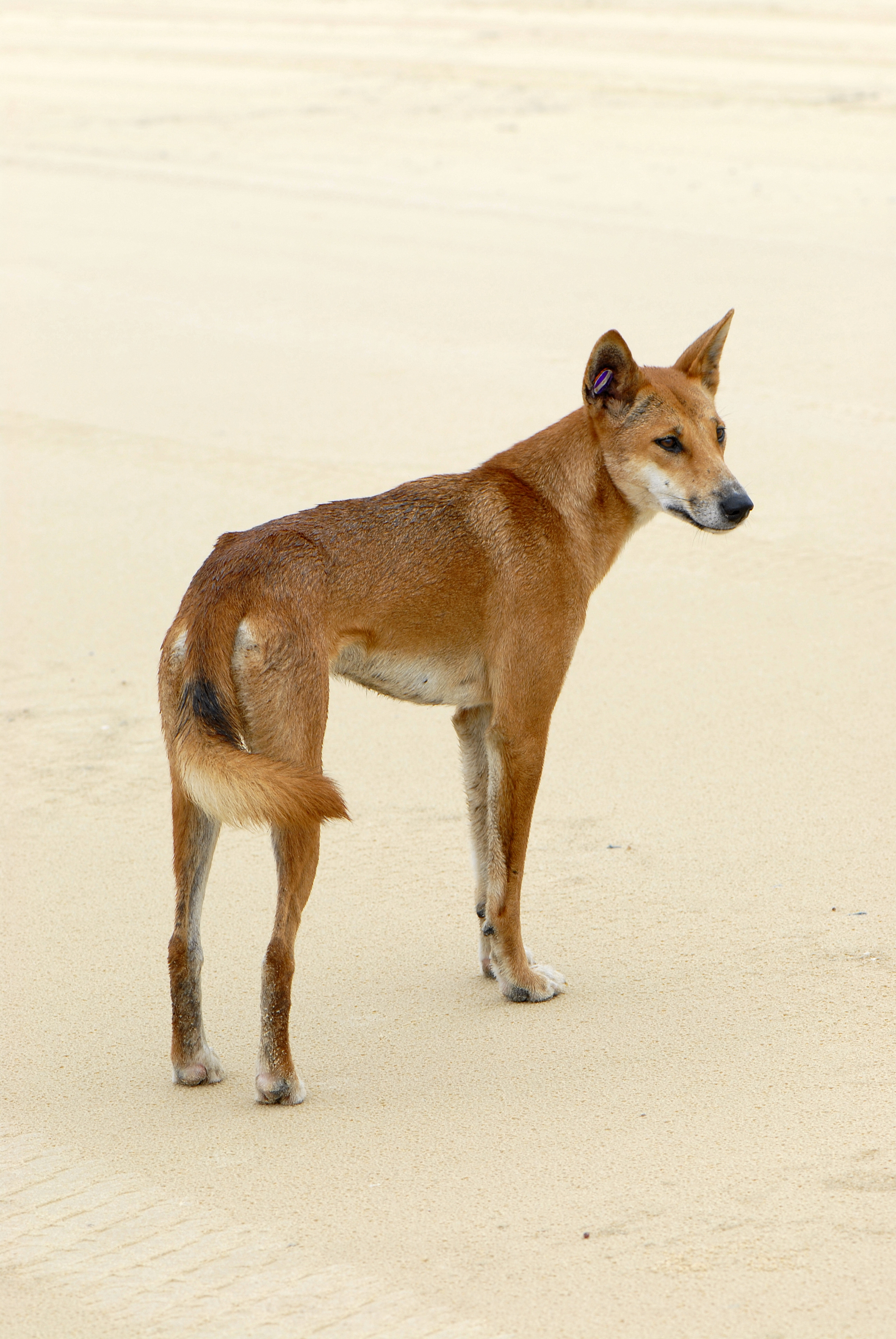 Canis lupus dingo Fraser Island Queensland, Australia 3 Feb 2009 Sam Fraser-Smith